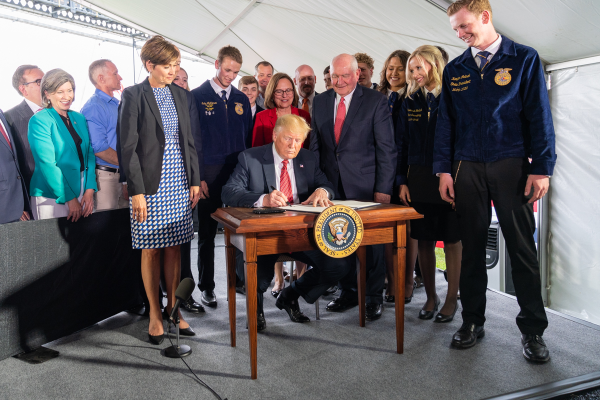 President Donald J. Trump, joined by Agriculture Secretary Sonny Perdue, Iowa Governor Kim Reynolds, members of Future Farmers of America, and local officials, signs an Executive Order making changes to the E15 ethanol rule, during his visit Tuesday, June 11, 2019, to Southwest Iowa Renewable Energy ethanol plant in Council Bluffs, Iowa. (Official White House Photo by Shealah Craighead)